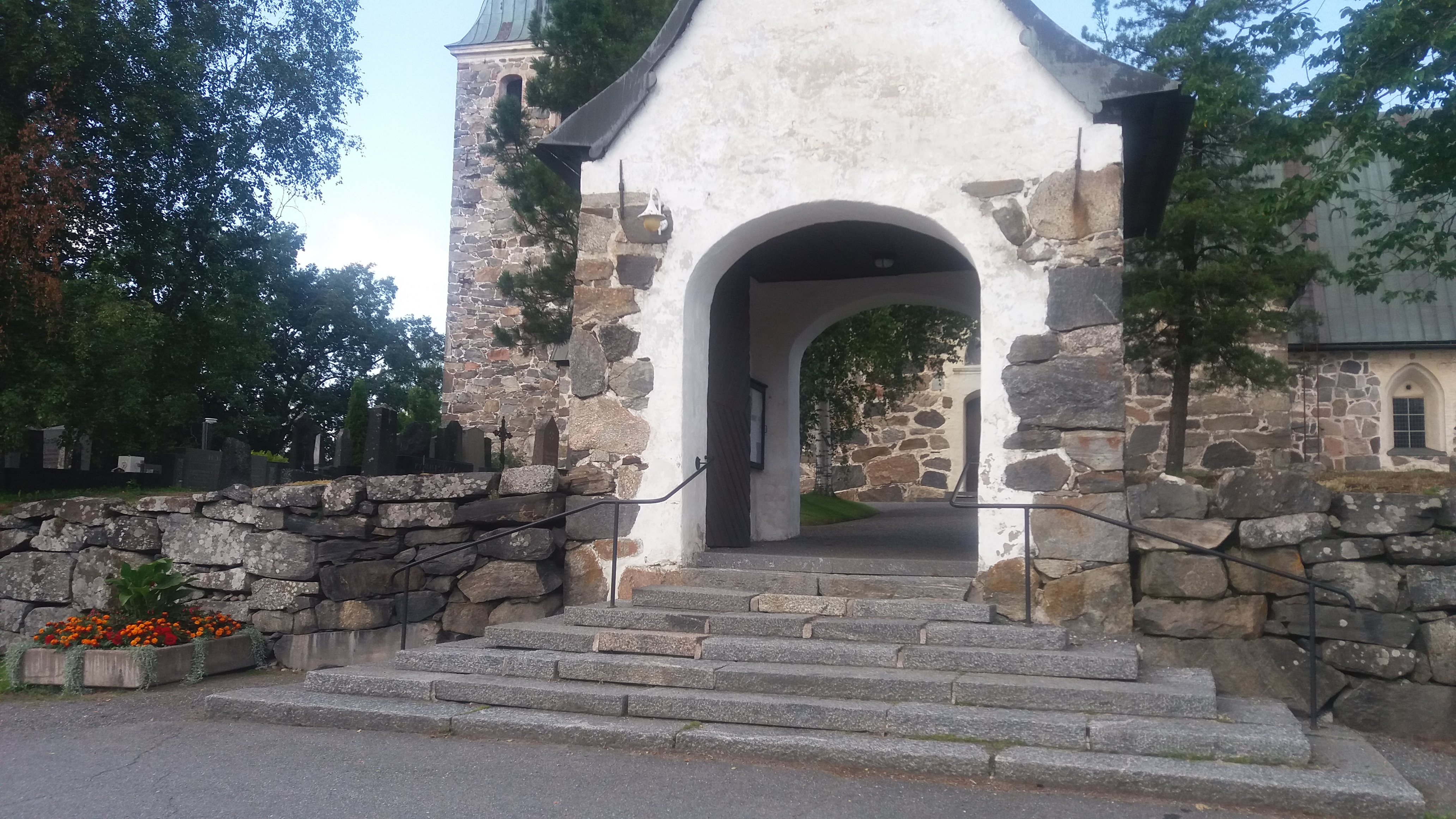 The 1794 completed gate of the Huittinen Church, Finland